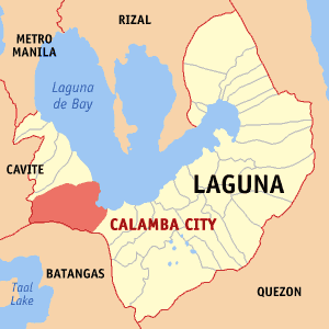 Locator map of Calamba in Laguna, Philippines.